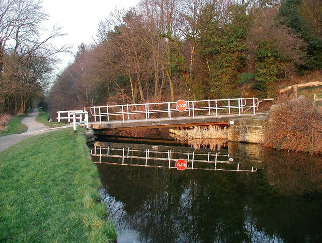 Buck Mill Lane Bridge Swing bridge over the Leeds & Liverpool Canal on Buck Mill Lane, Thackley End, looking northeast towards Buck Wood.